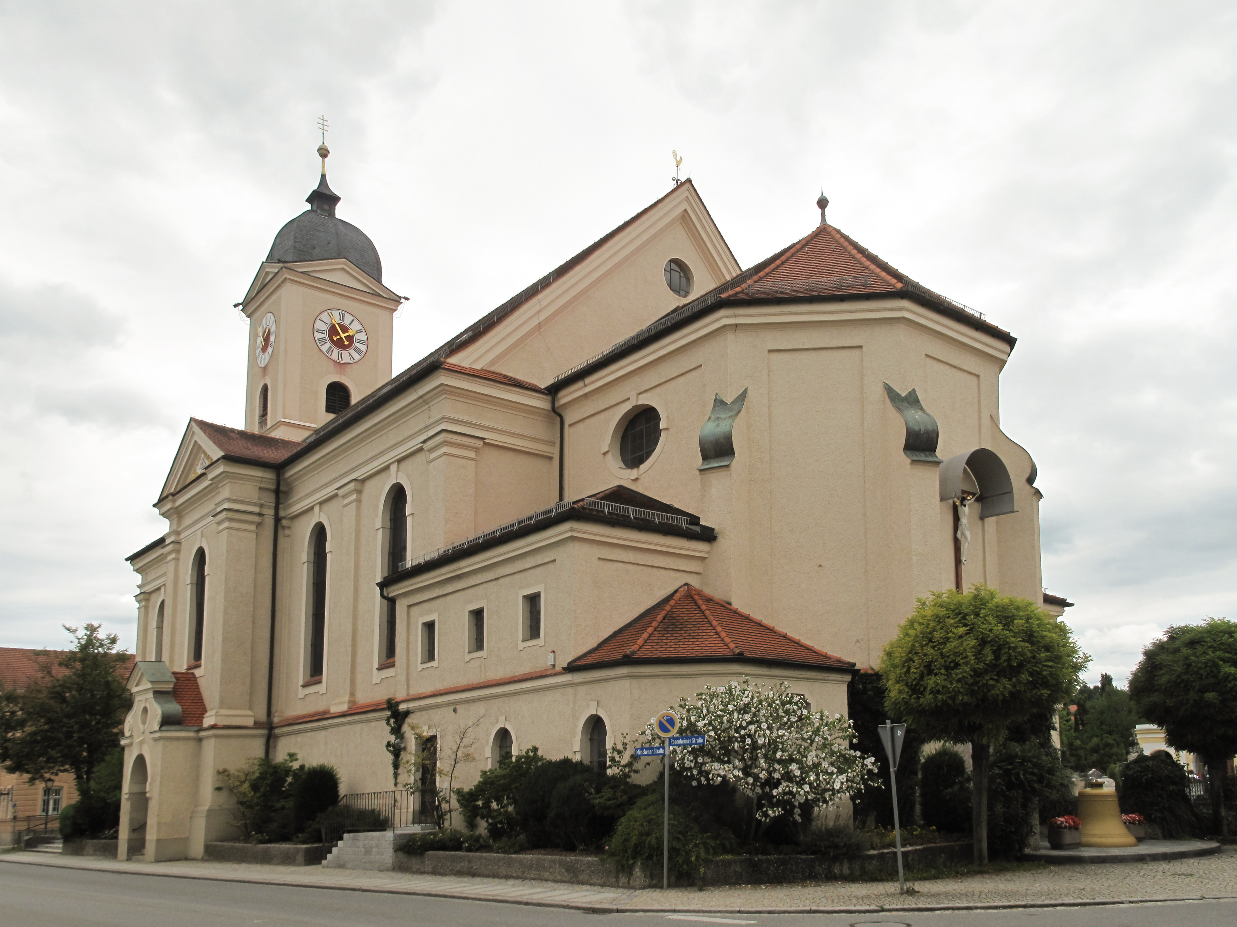 Feldkirchen, church: Pfarrkirche Sankt Laurentius